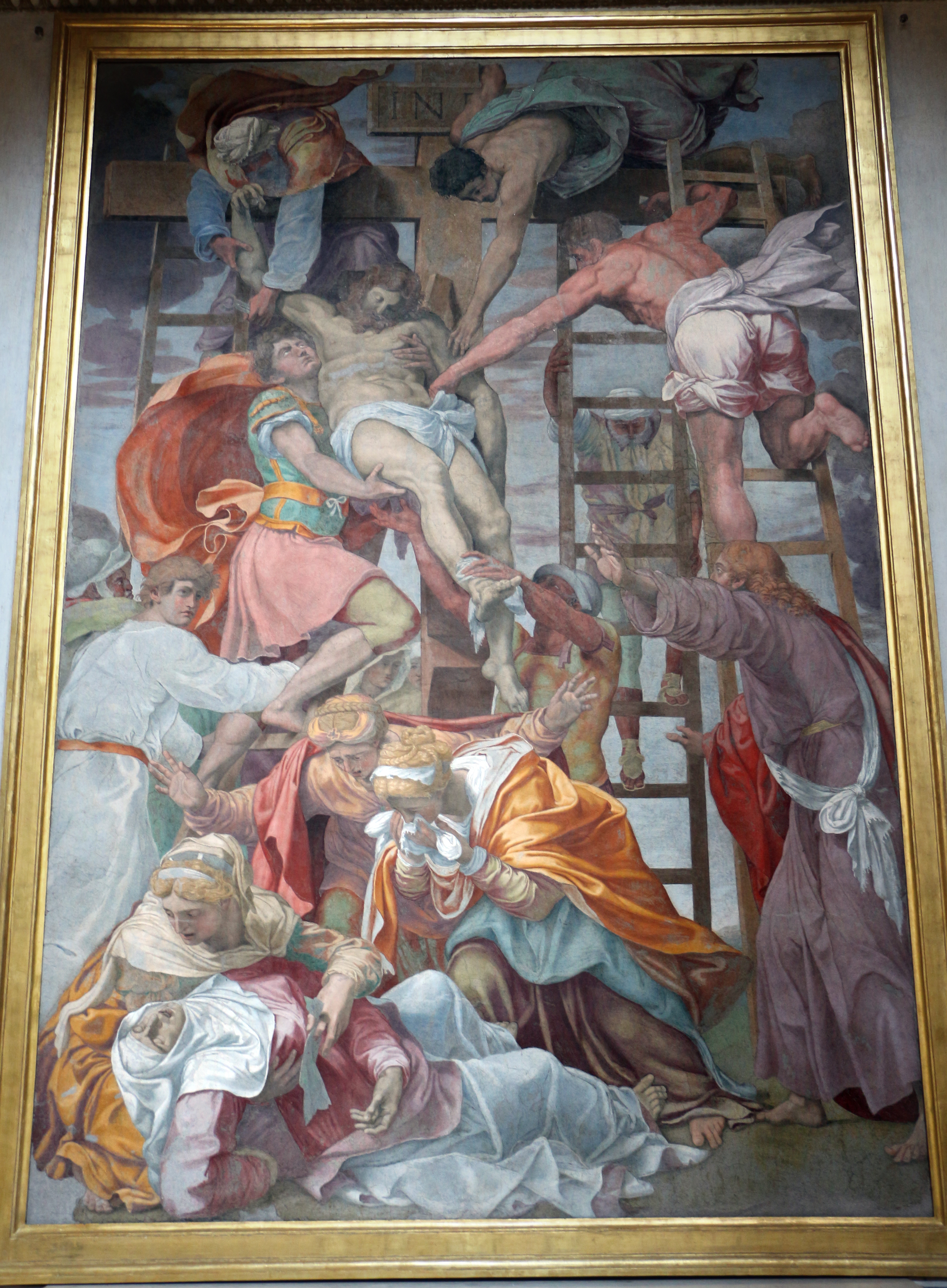 Deposition by Daniele da Volterra